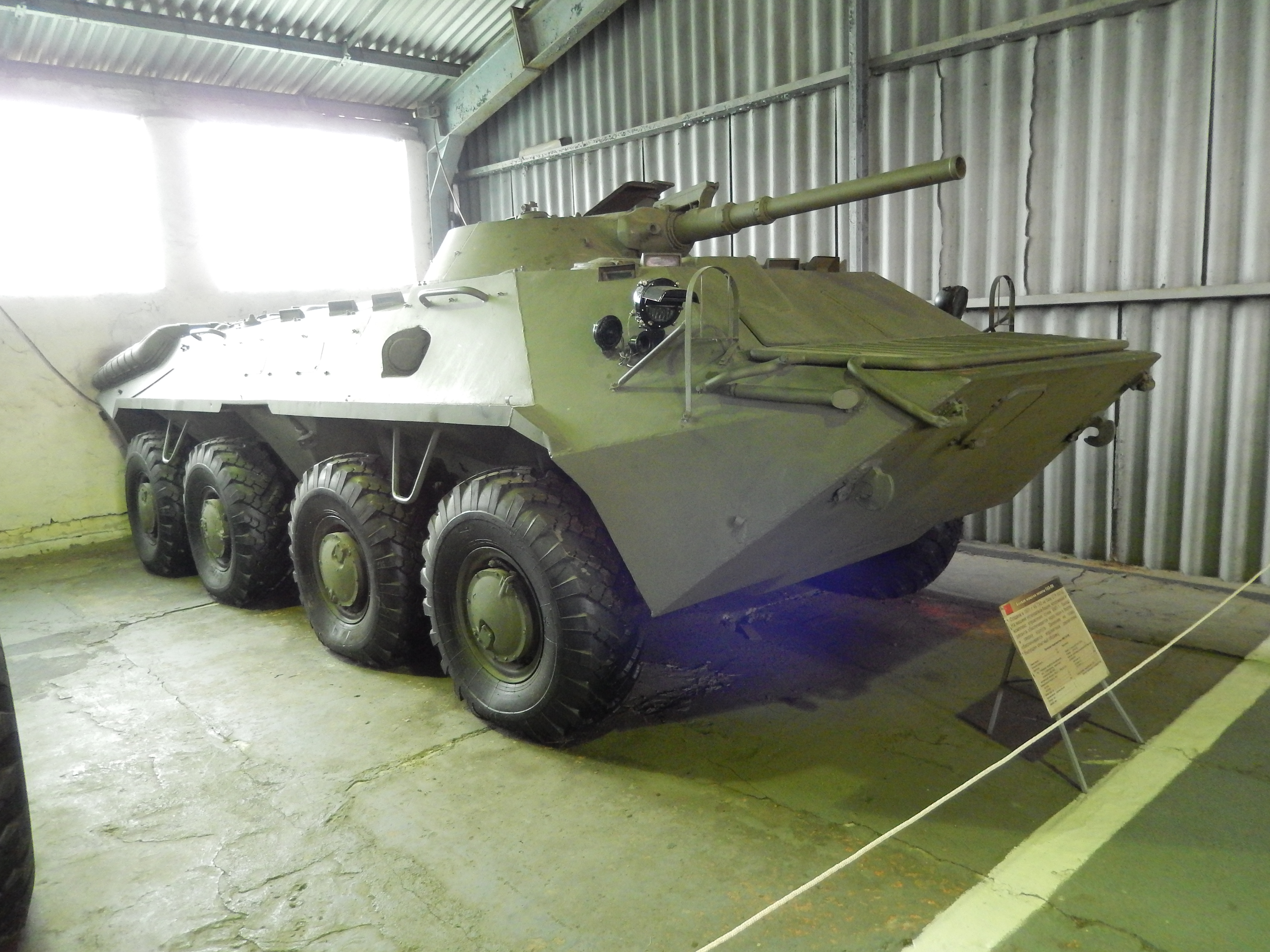 Experimental infantry fighting vehicle GAZ-50 in the tank museum in Kubinka